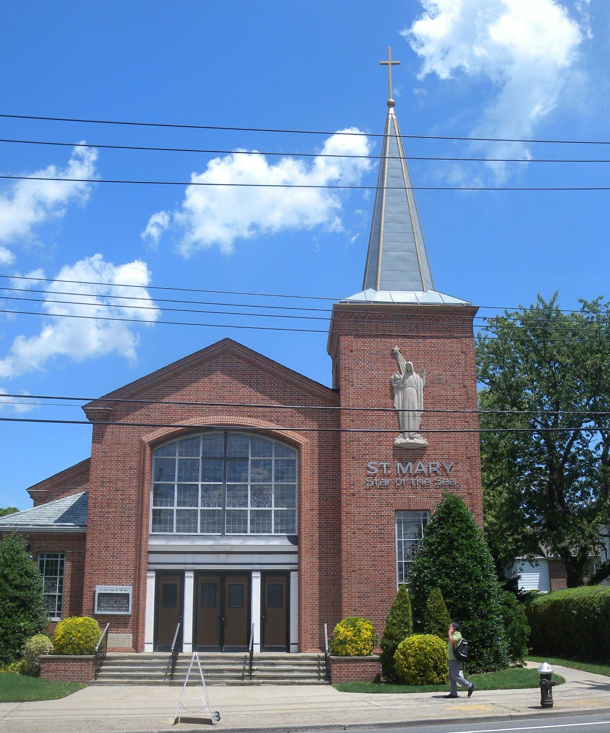 Looking east across City Island Avenue.